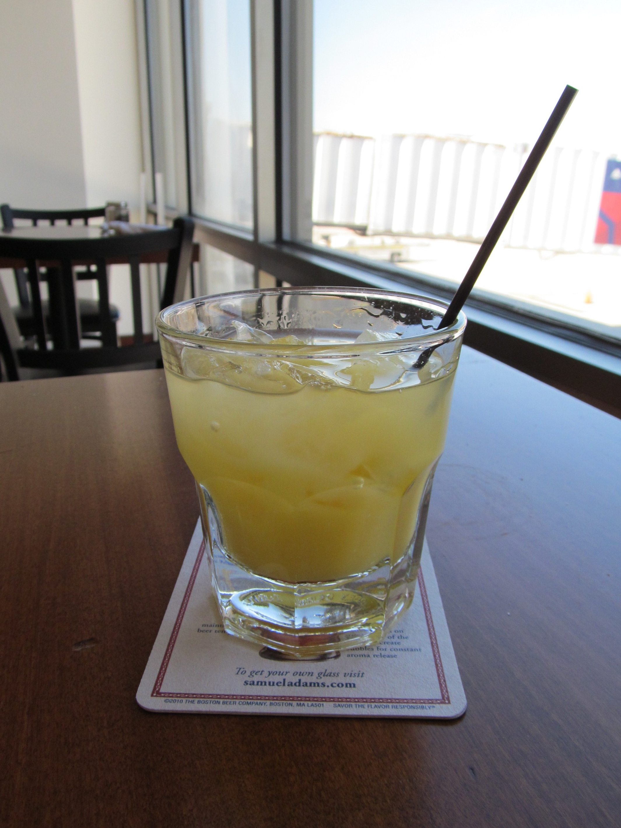 Screwdriver, Birmingham-Shuttlesworth International Airport, Birmingham Alabama